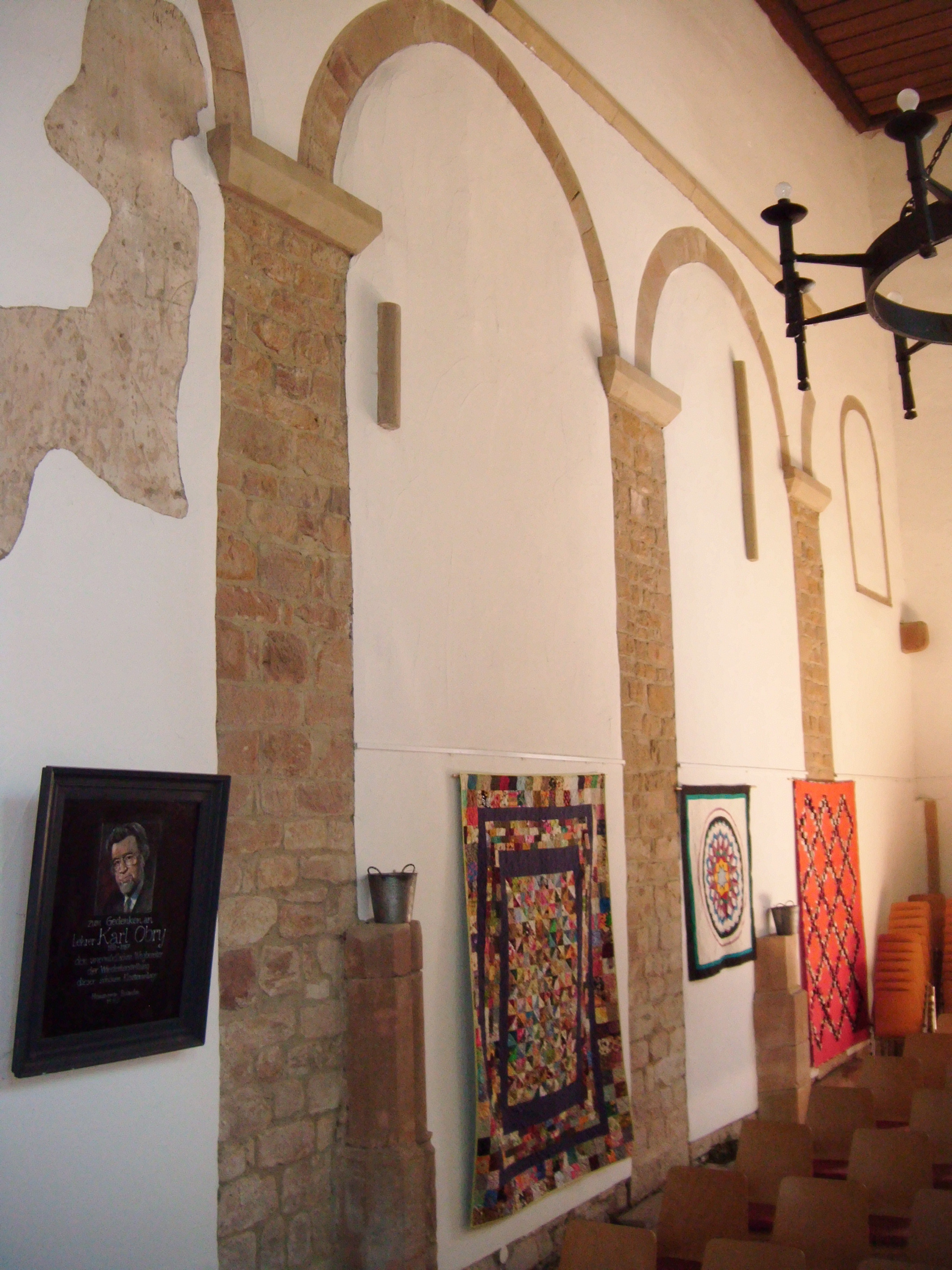 Kloster Hane, Bolanden, Kirche, innen, Südwand mit romanischen Arkadenbögen